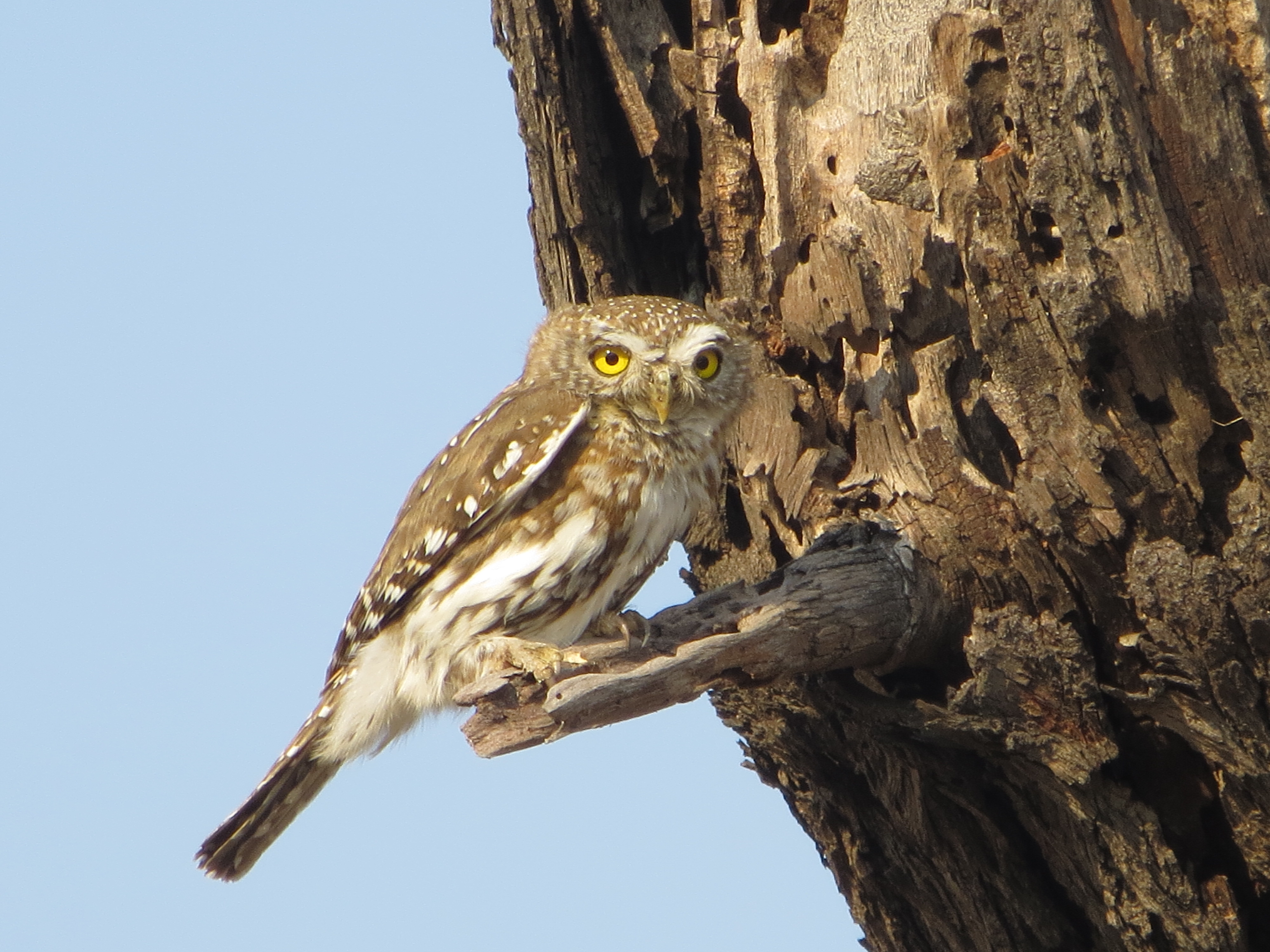 Chobe National Park, Botswana August, 26th, 2012